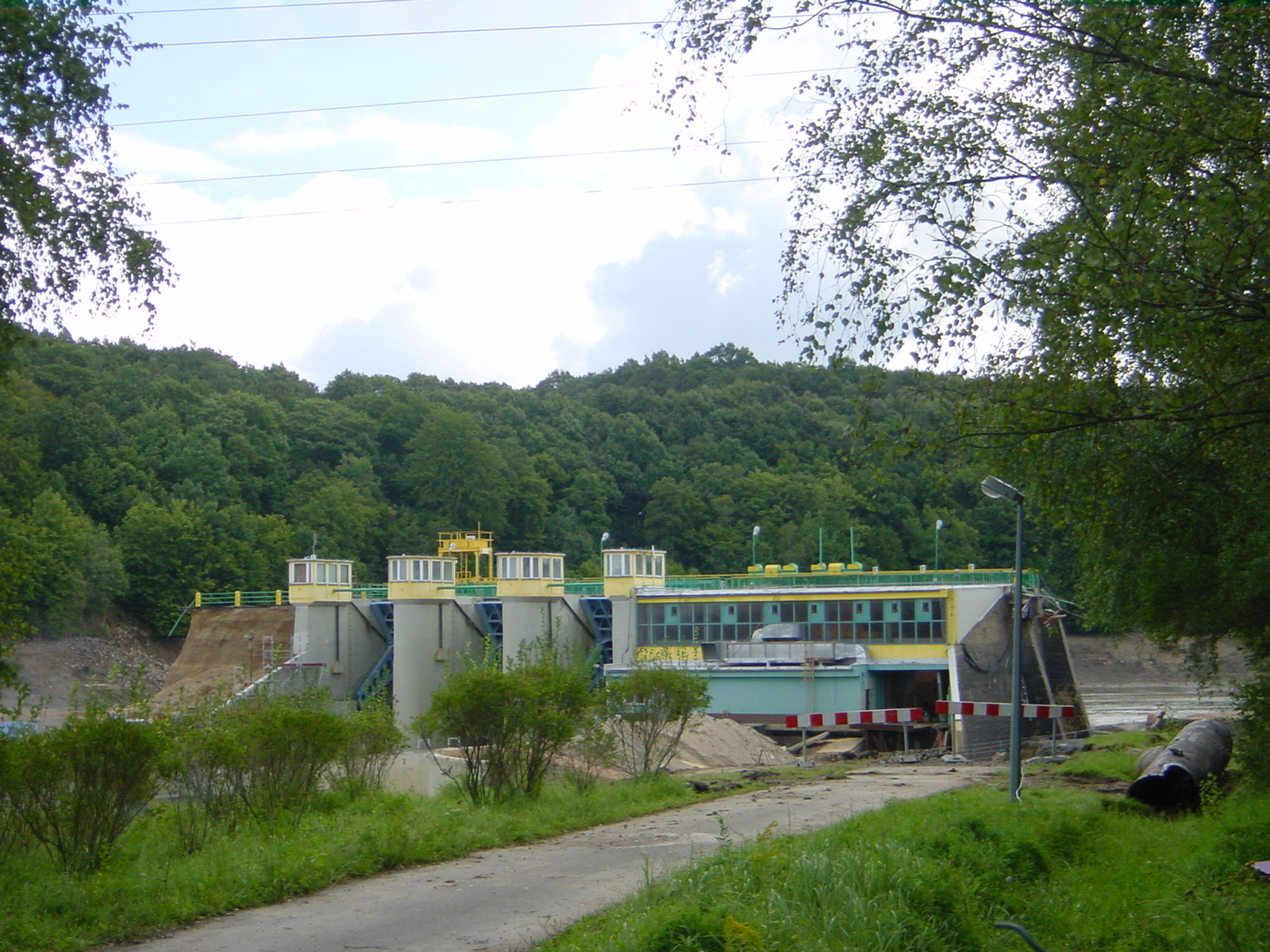 Witka dam, Poland, after dam collapse